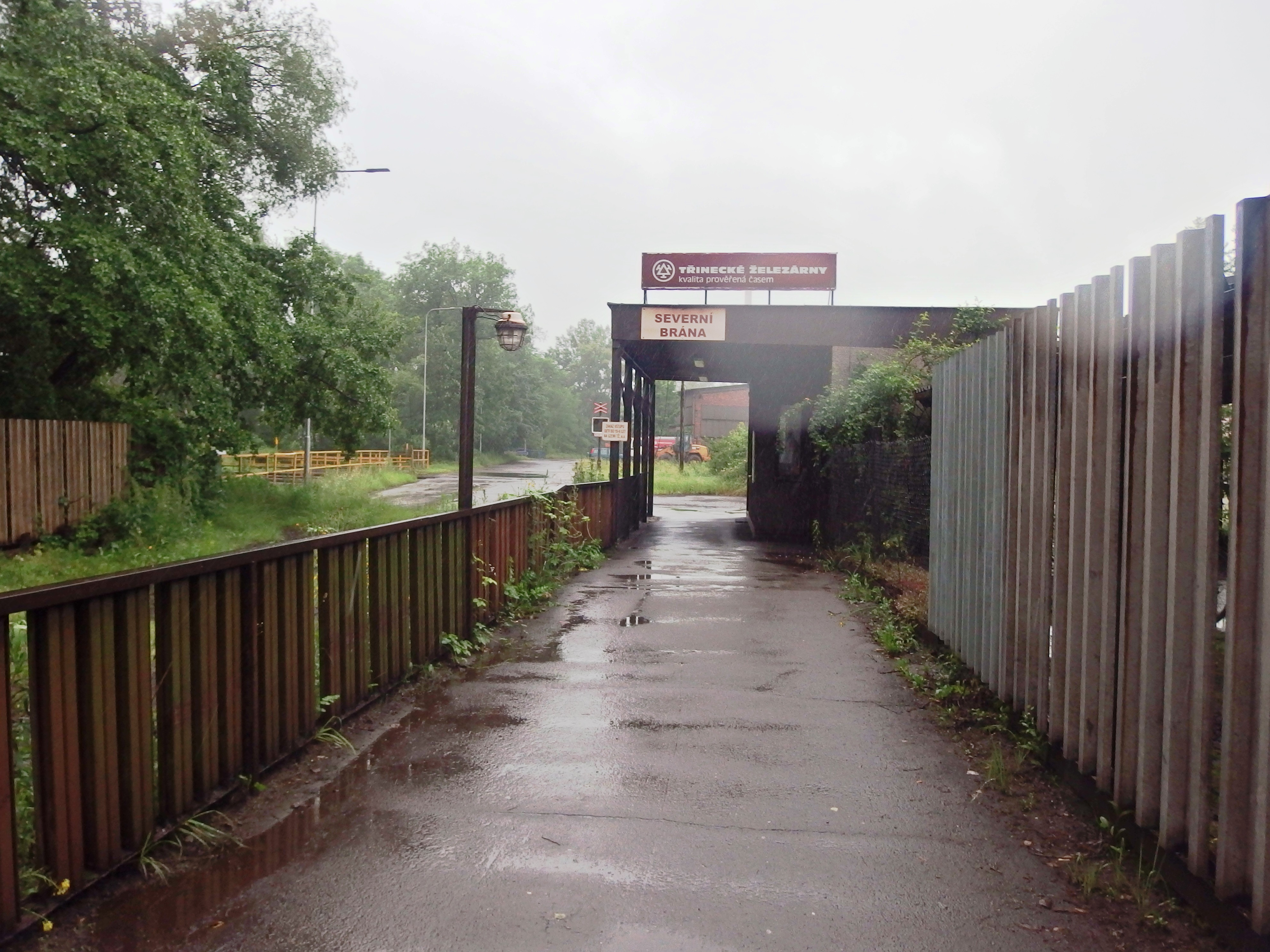 Třinec, Frýdek-Místek District, Czechia, part Konská.